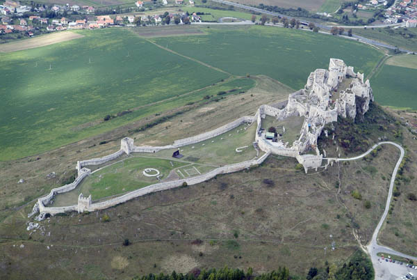 Spiš Castle, Slovakia, castle, aerial photography